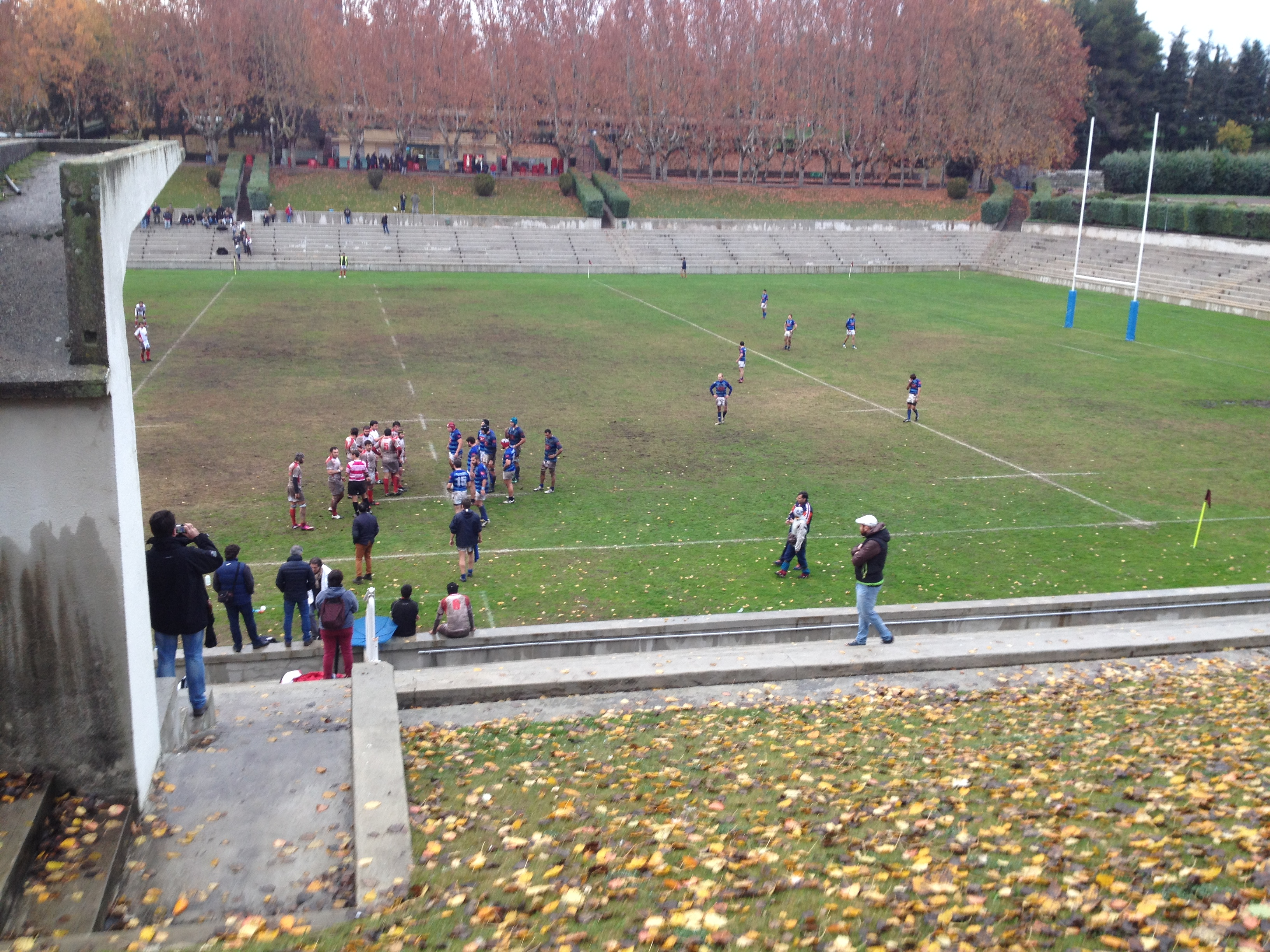 CR Cisneros playing ruby in Central de la Ciudad Universitaria